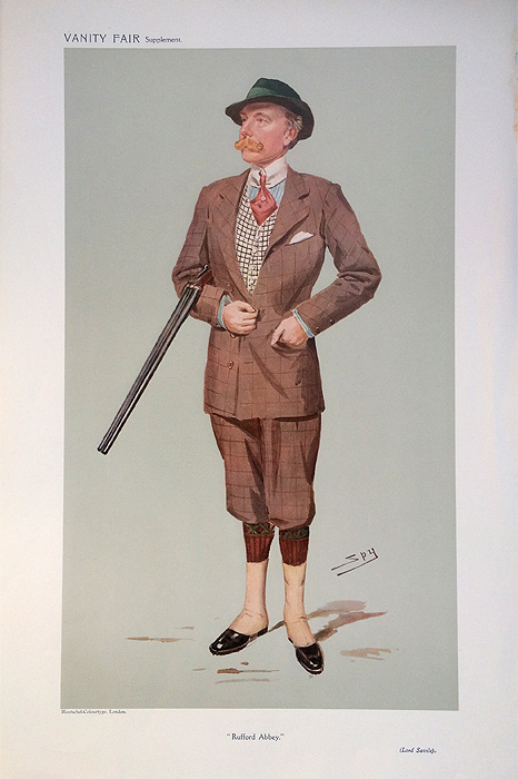 Men of the Day No.1114: Caricature of Lord Savile. Caption reads: "Rufford Abbey"